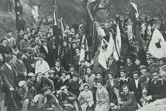 Aplec requete San Feliu 1911